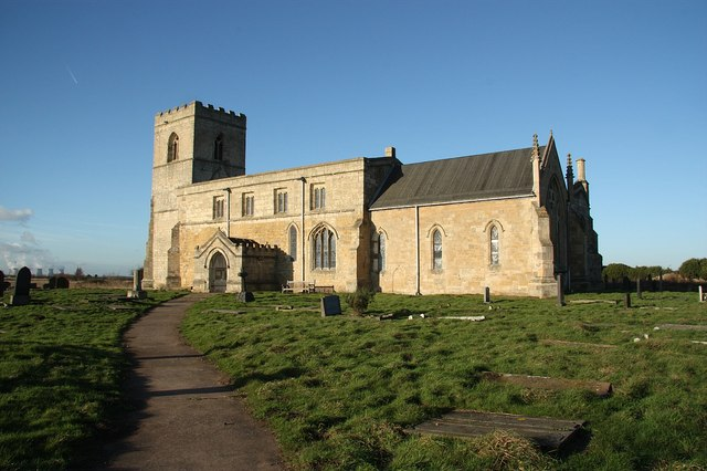 St.Edmund's church Remotely situated away from the village